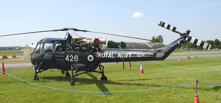 Privately-owned Westland Wasp HAS.1 (XT781/426) at the Classic-Jet Air Show, Kemble, England, in June 2003. On the UK Civil Register, in Royal Navy markings, as G-KAWW. Delivered to the Royal Navy Fleet Air Arm in 1966, sold to the Royal New Zealand Navy in 1983, retired 1988.